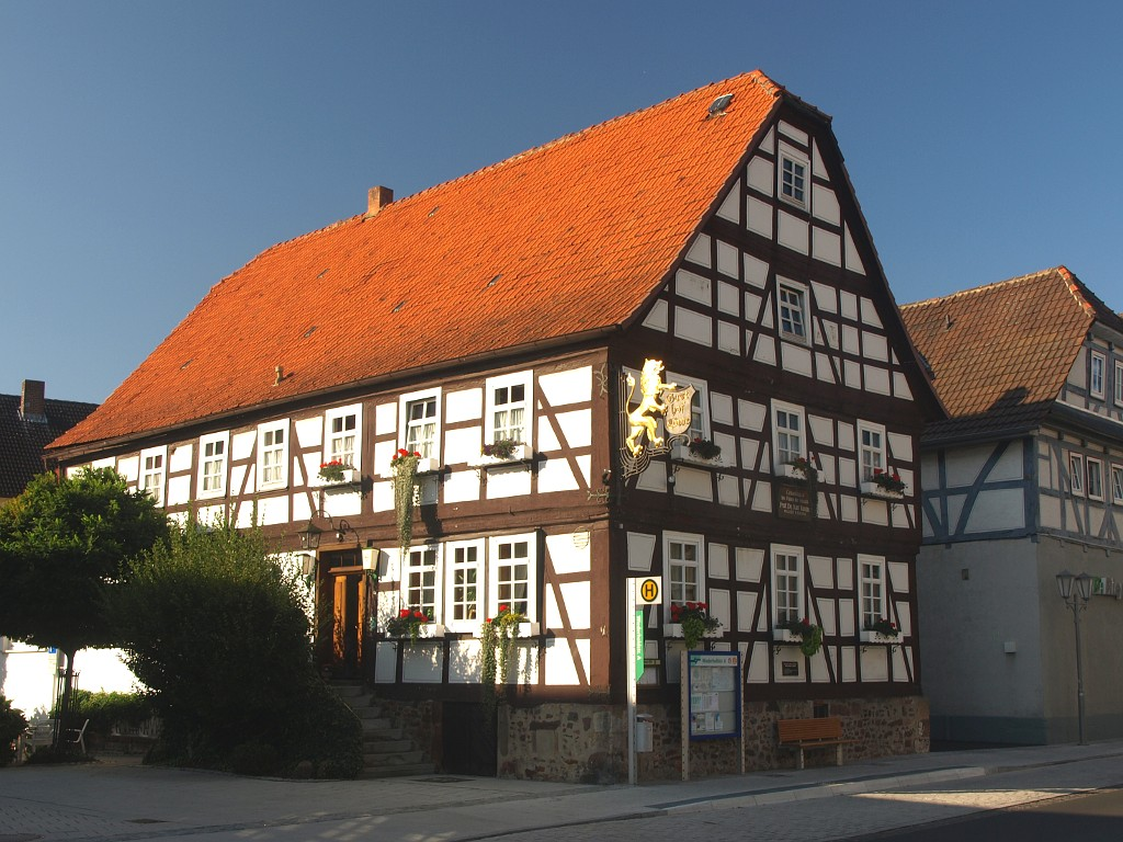 Birthplace of Carl Bantzer at 6th August 1857. This half-timbered house was built in 1557 and renovated in 1824. Since 1842 used as a pub.